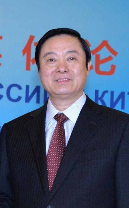 Chief of Staff of the Presidential Executive Office Sergei Ivanov and Head of the Central Publicity Department of the Communist Party of China and member of the Communist Party Central Committee’s Politburo Liu Qibao before the Second Russia-China Media Forum.